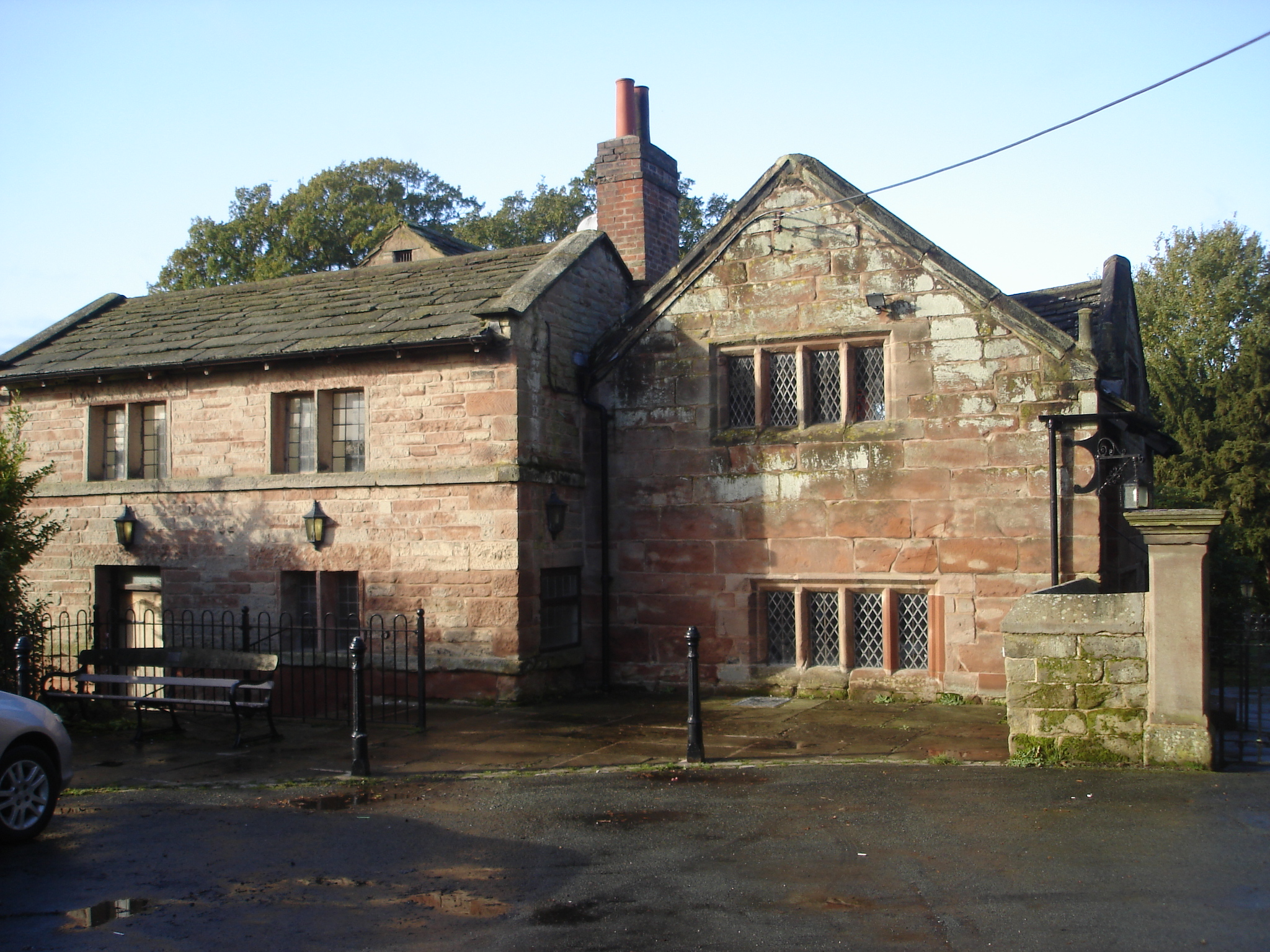 Old Church Hall, Nether Alderley. Built 1628 as school. Extended at rear (to left in picture) 1817. Now church hall and parish council chamber. Grade II* listed.